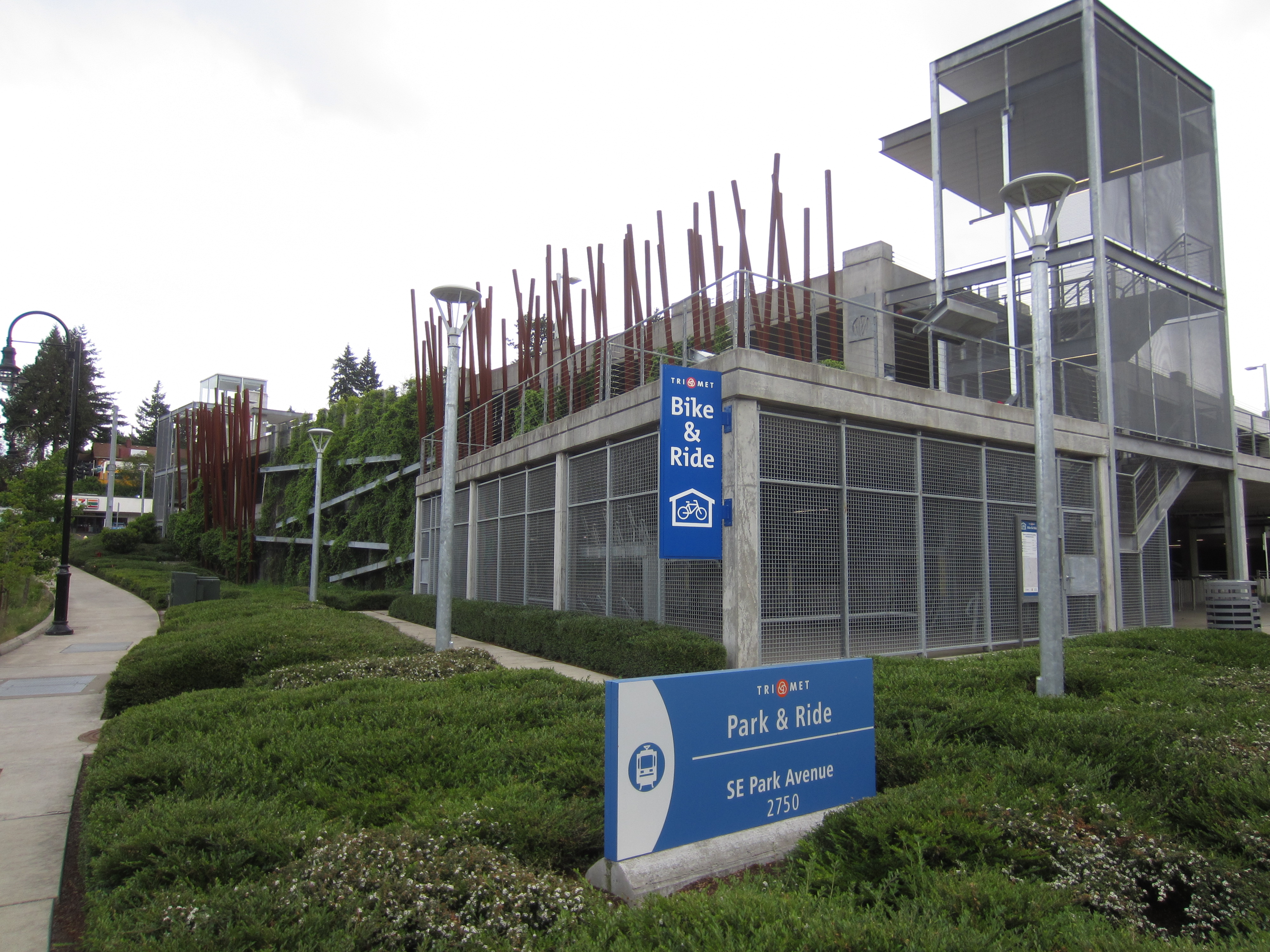 Oak Grove, Oregon (2019)